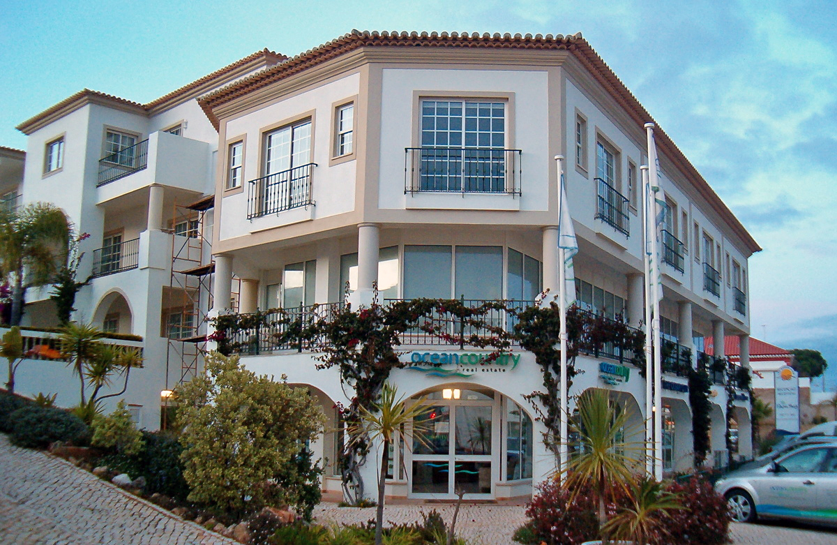 Ocean Country real estate, Praia da Luz, Algarve, Portugal. Note: this is not known to be related to the Ocean Club.